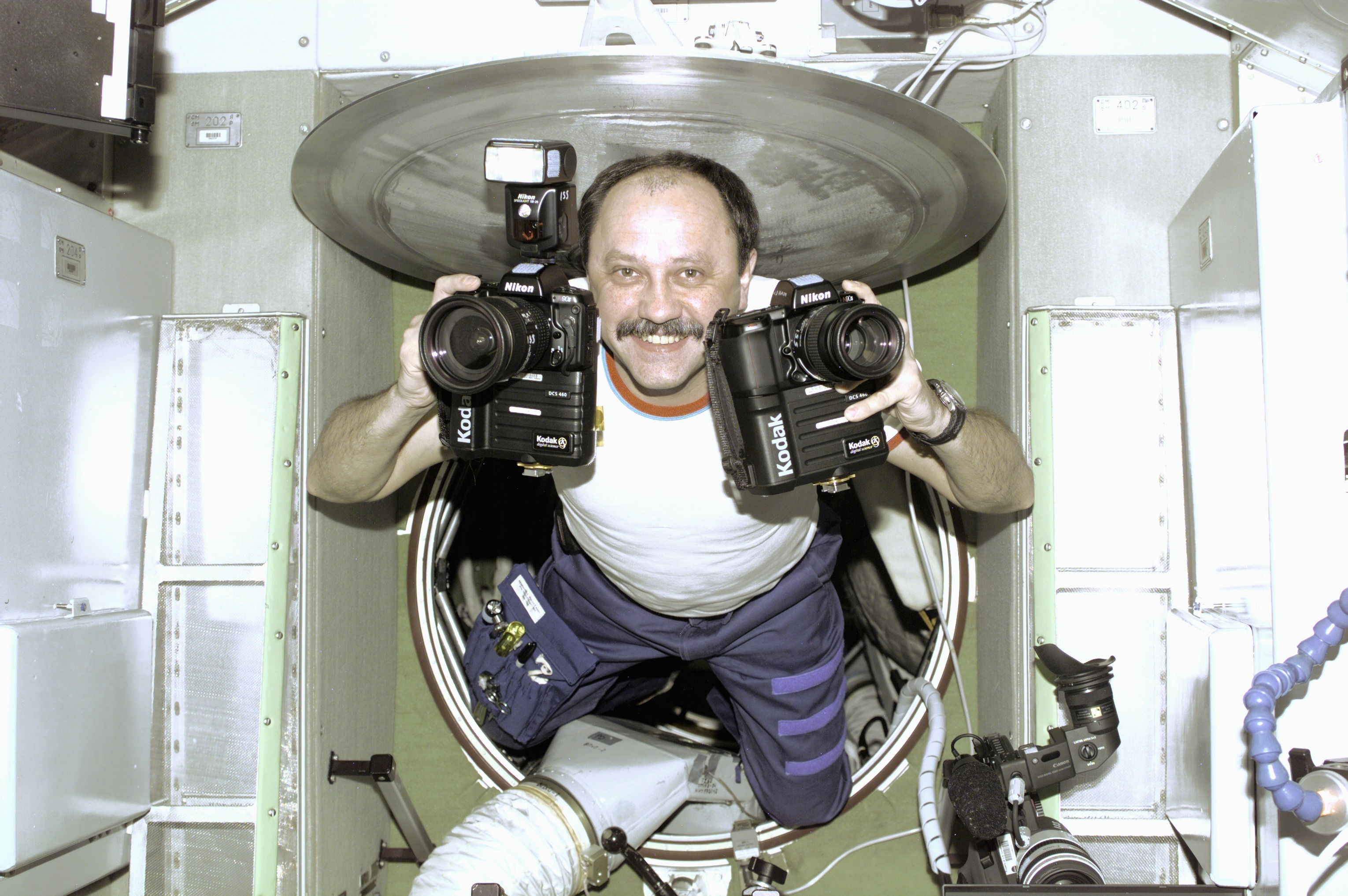 Cosmonaut Yury V. Usachev, Expedition Two commander, floats into the Zvezda Service Module equipped with cameras. Usachev, representing Rosaviakosmos, and two NASA astronauts recently replaced the Expedition One crew onboard the orbital outpost. This image was recorded with a digital still camera.